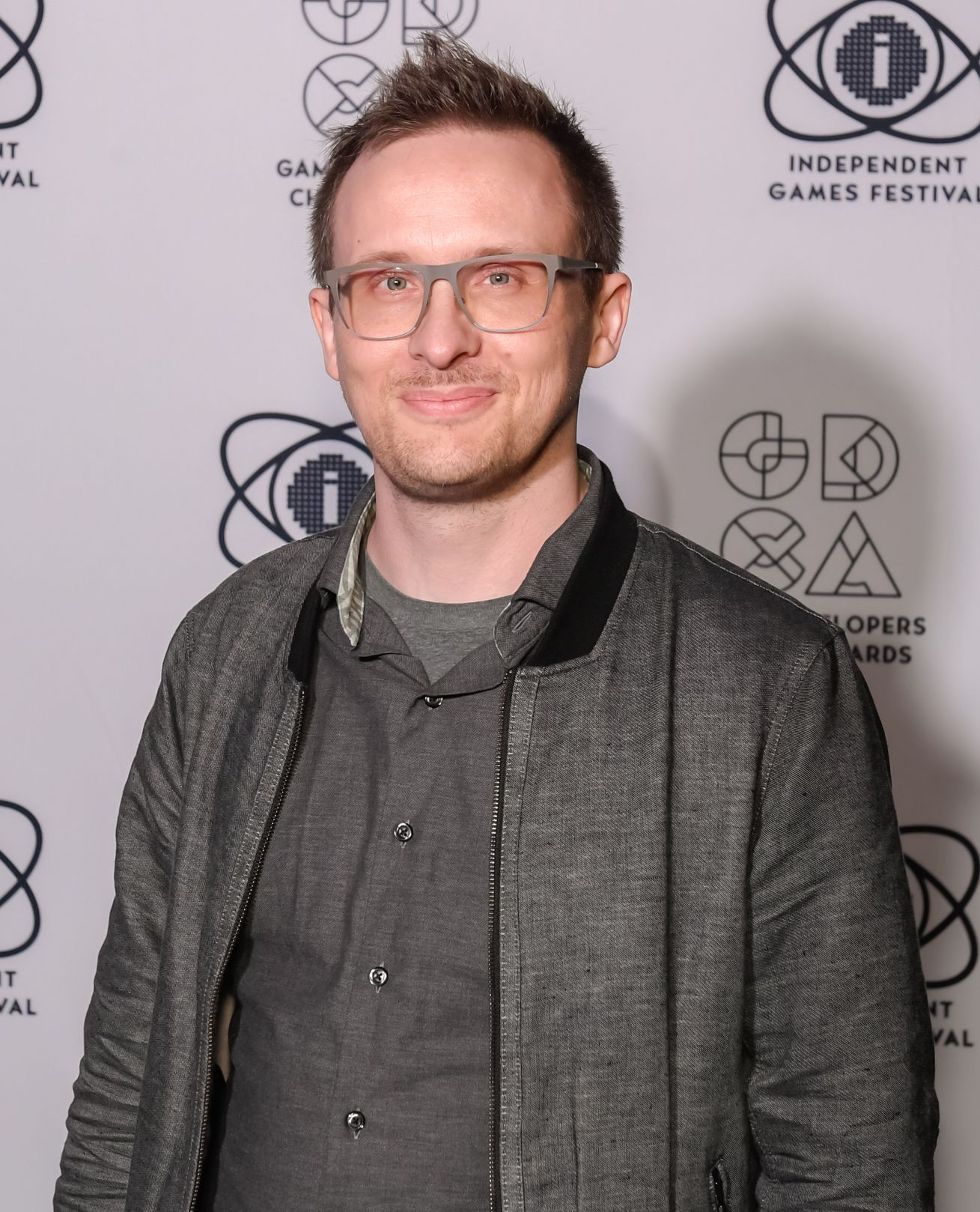 Bennett Foddy at the 2018 Game Developers Conference